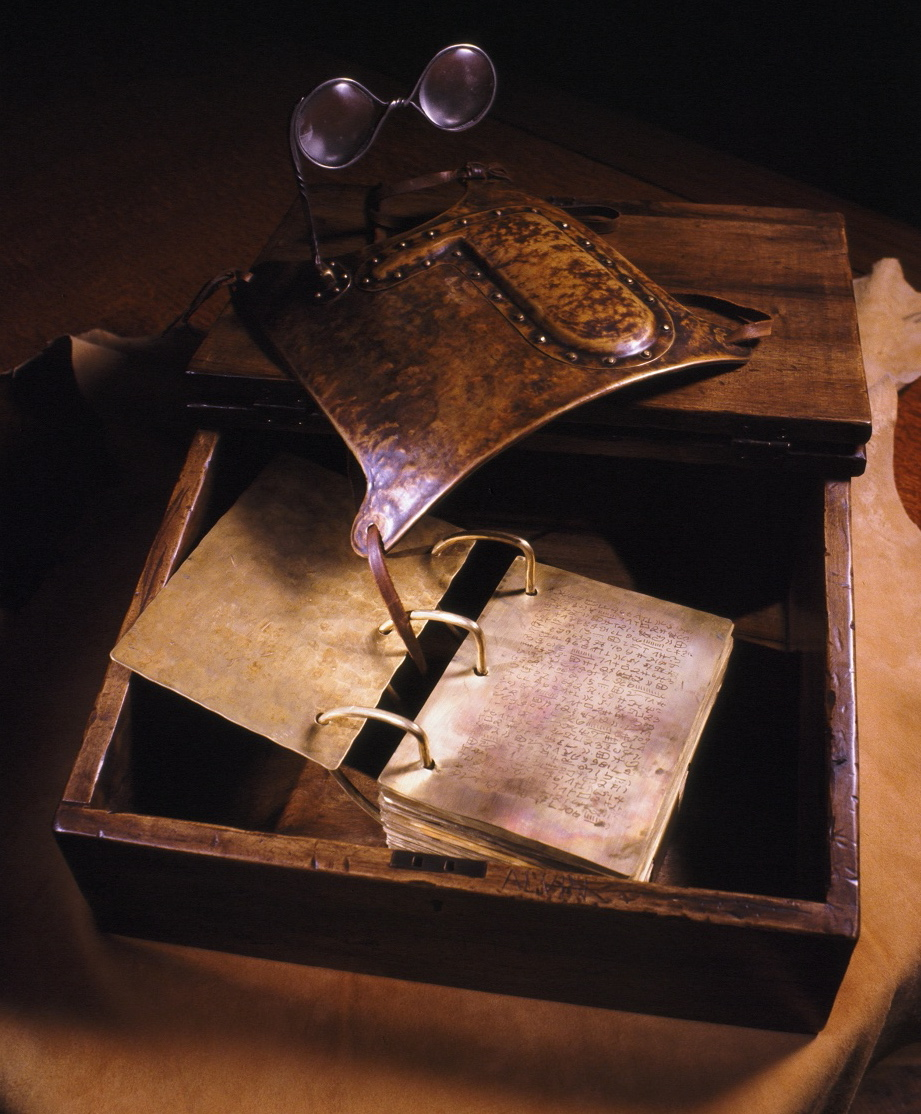 A 21st century artistic representation of the Golden Plates, Breastplate, and Urim and Thummim, based on descriptions by Joseph Smith and others